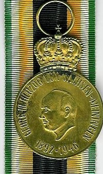 Commemorative Medal on Georg III of Saxe-Meiningen, issued in 1978